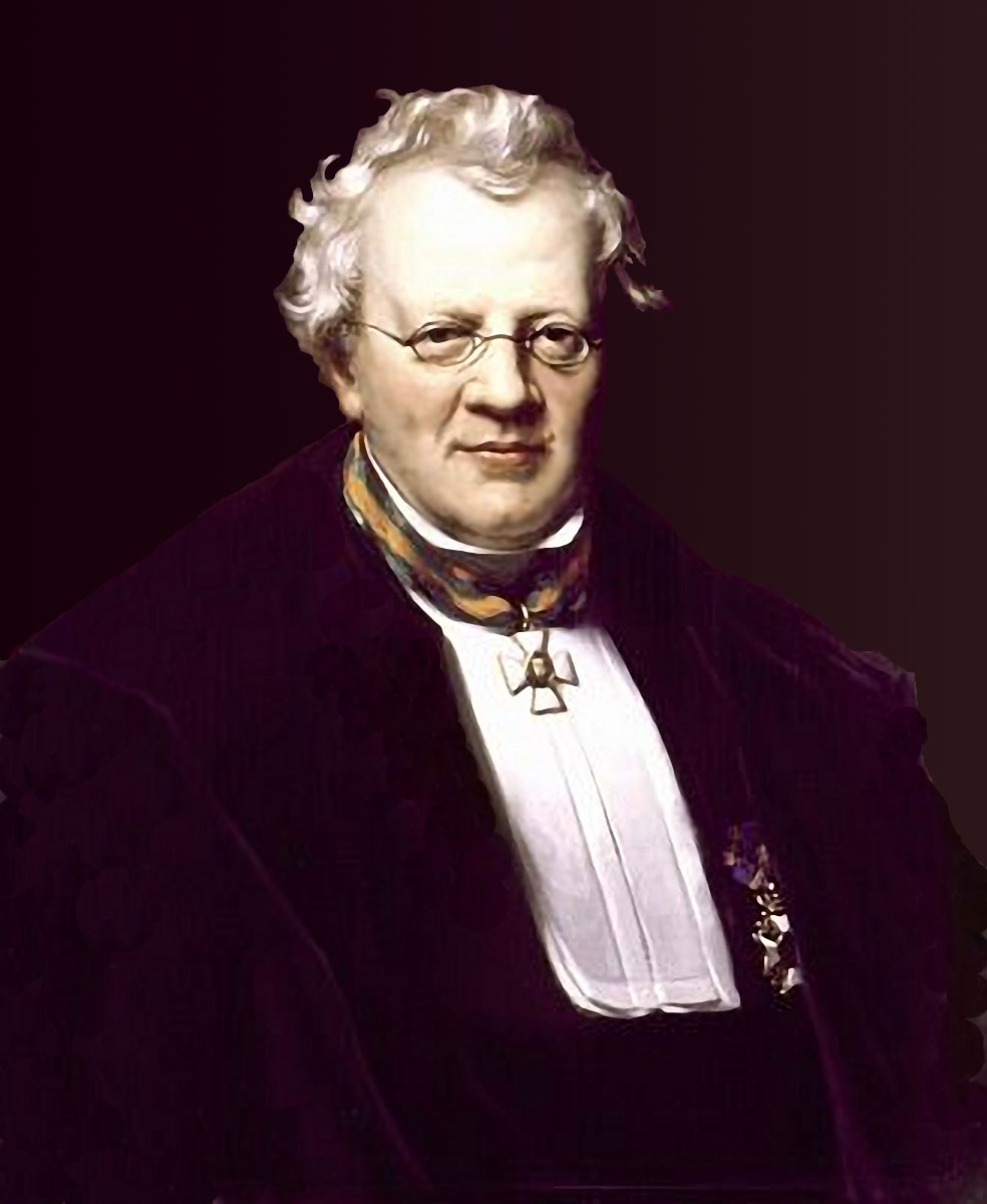 Jacob van Hall (1799-1859) Dutch legal scholar